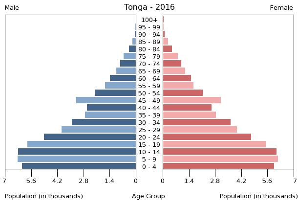 The population pyramid of Tonga illustrates the age and sex structure of population and may provide insights about political and social stability, as well as economic development. The population is distributed along the horizontal axis, with males shown on the left and females on the right. The male and female populations are broken down into 5-year age groups represented as horizontal bars along the vertical axis, with the youngest age groups at the bottom and the oldest at the top. The shape of the population pyramid gradually evolves over time based on fertility, mortality, and international migration trends.